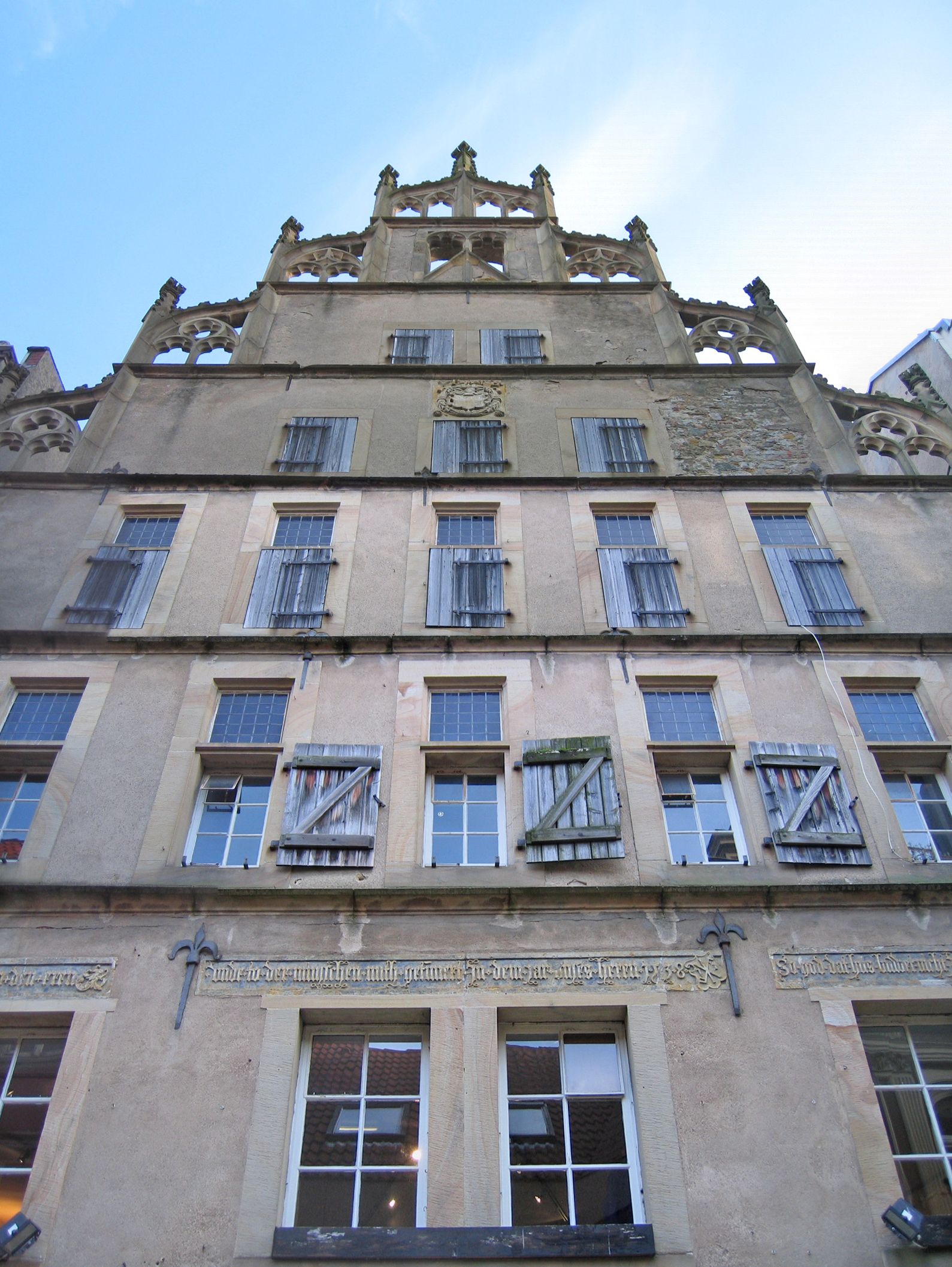 "Mayor's house in Herford, District of Herford, North Rhine-Westphalia, Germany.